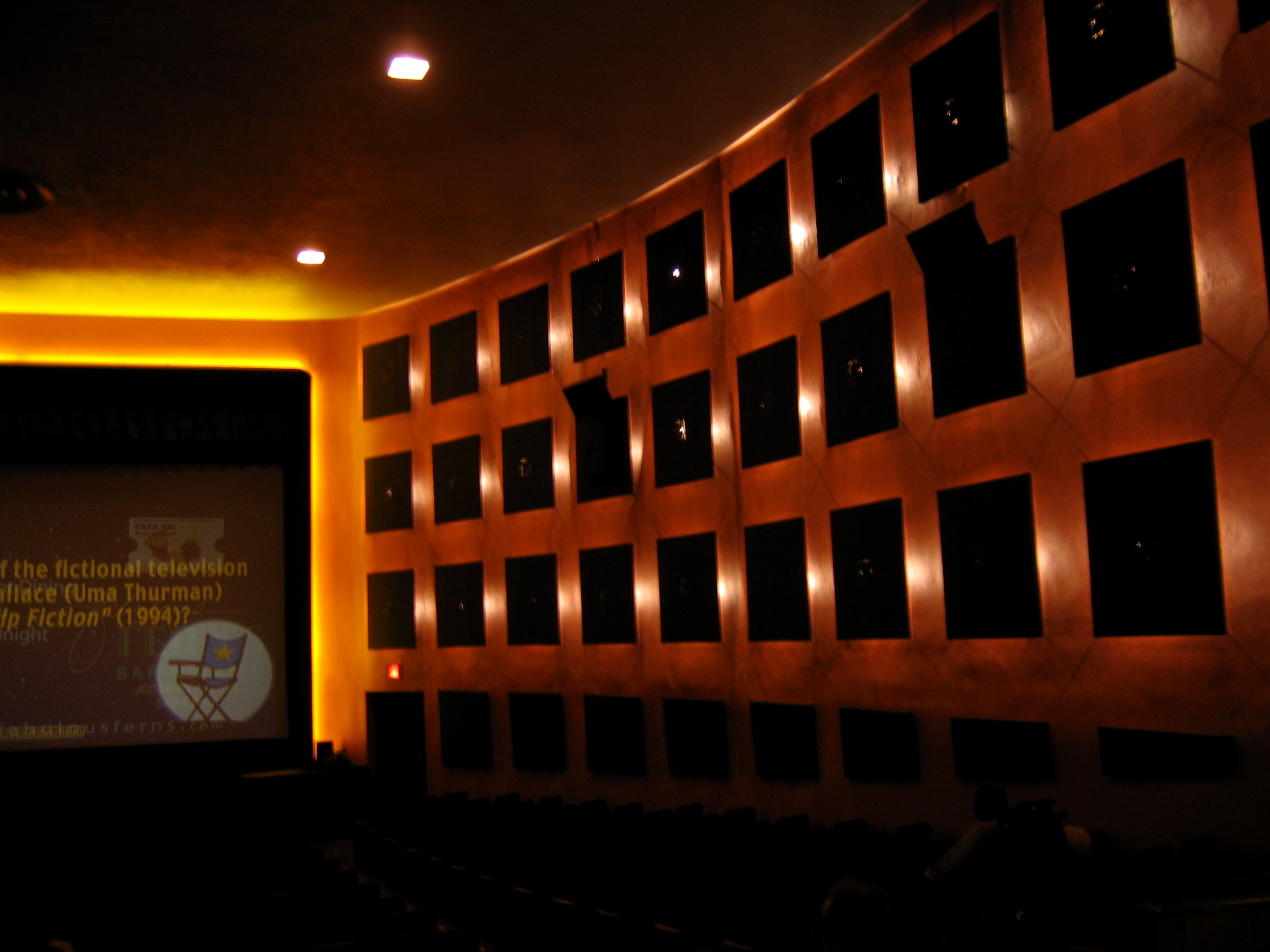 The auditorium/showing space of the Riverview Theater.